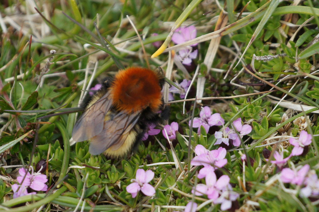 Shetland Bumblebee (Bombus muscorum agricolae) on Moss Campion (Silene acaulis), Clibberswick, Shetland Islands, Great Britain This distinctive subspecies, much brighter than the Mainland race, is the commonest bumblebee in Shetland. The subspecies agricolae is also supposedly found in the Outer Hebrides although it is difficult to see how both populations can have a common ancestor, so they should probably be treated as separate subspecies.